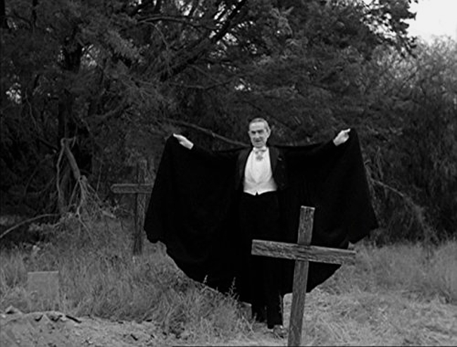 Film: Plan 9 from Outer Space (1959) Director: Ed Wood, Jr. Actor Portrayed: Bela Lugosi The original 1959 version of this film is public domain, although there may be a copyright on the musical score